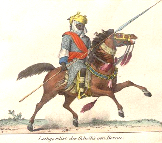 Bodyguard of the Sheikh of Bornu, early 1820's.